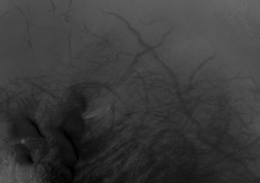 Milankovic crater central area showing boulders, dust devil tracks, and dark dunes, as seen by hirise. location is 54.6 degrees north latitude and 213.5 degrees east longitude.